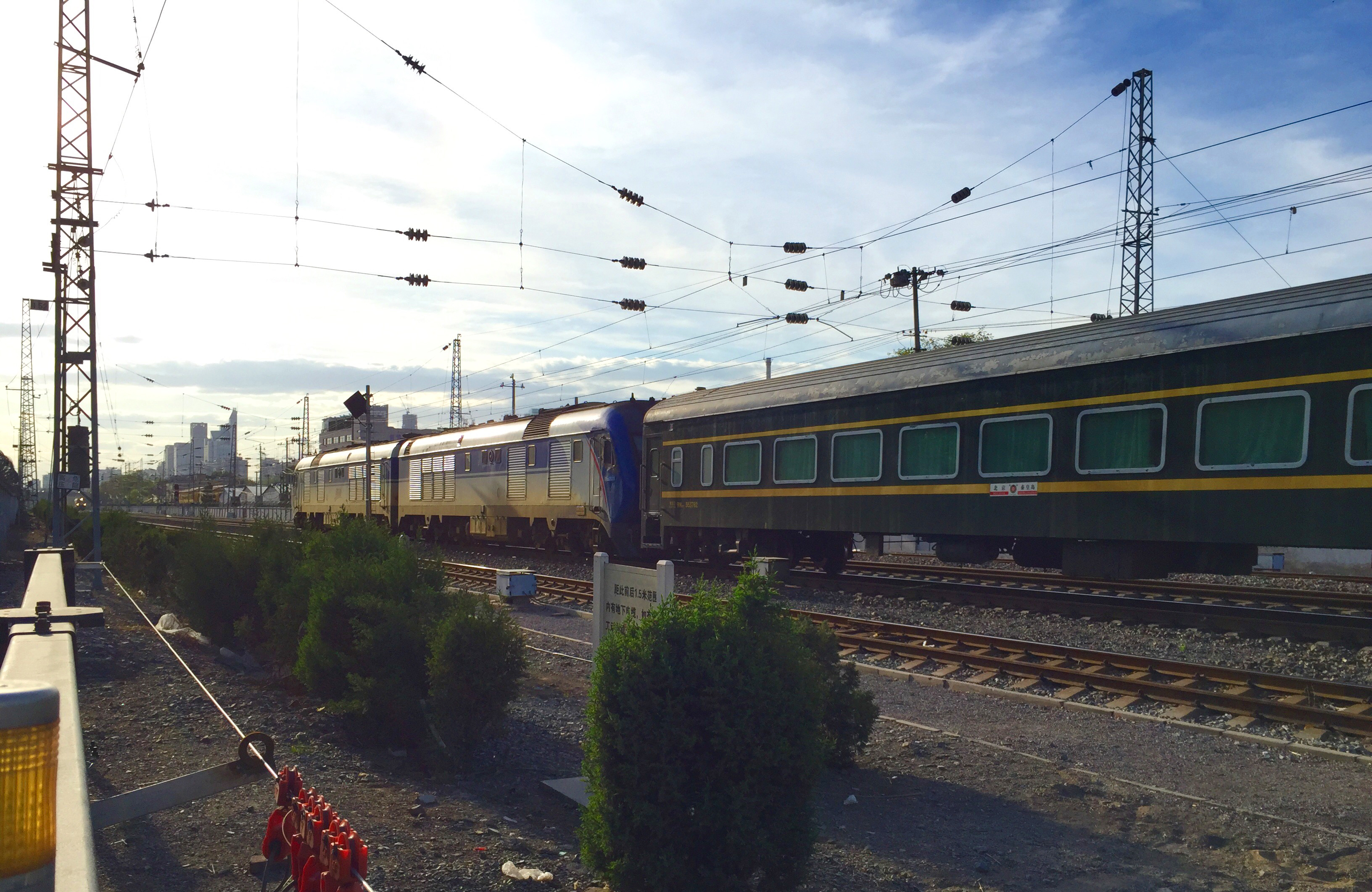 Y510 from Qinhuangdao, hauled by DF11G-0030&0029.